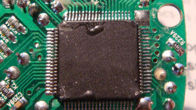 Image of an asic in a minidisk player